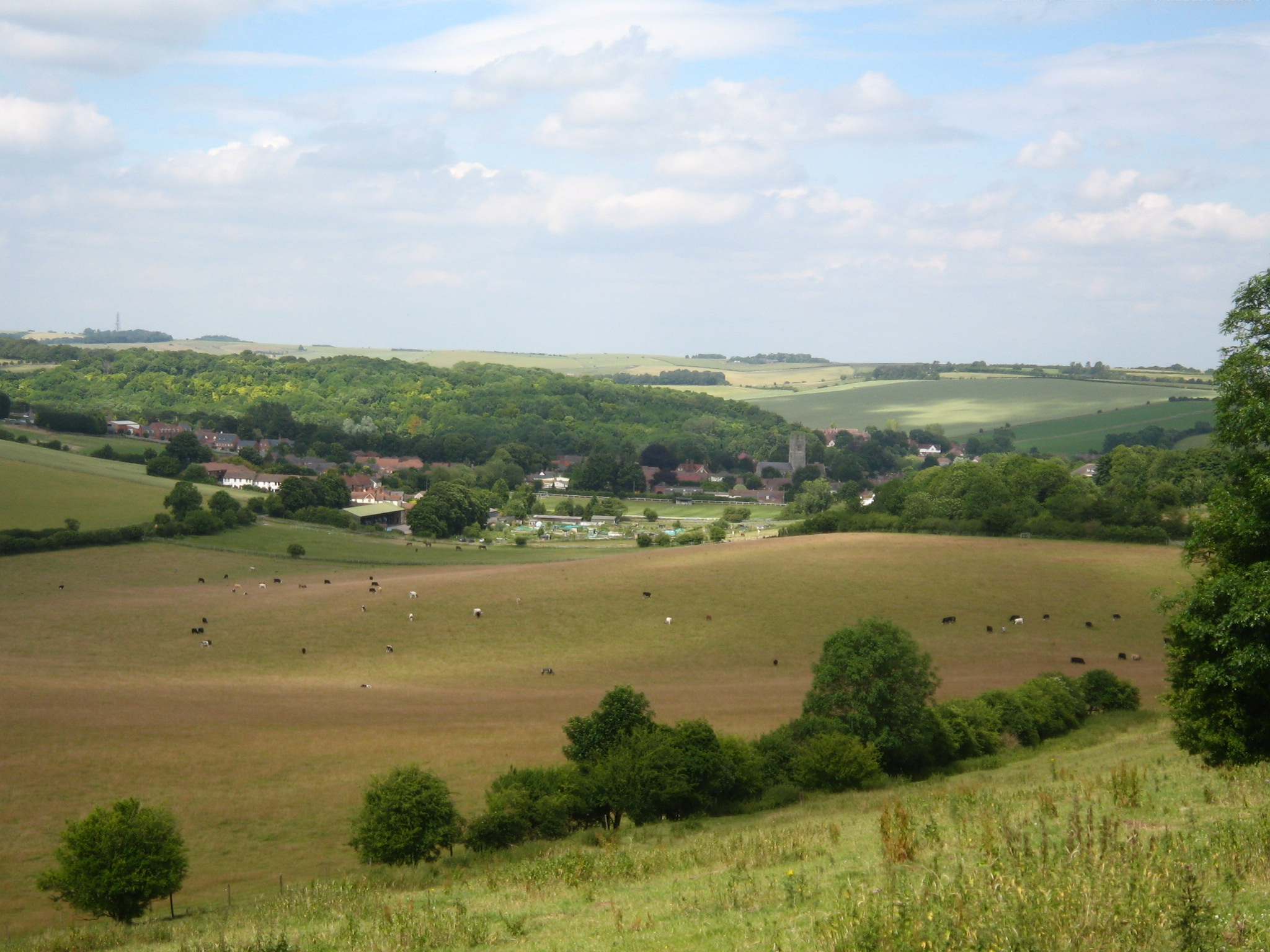 Lambourn and Lynch Wood from north-west, Lambourn, Berkshire